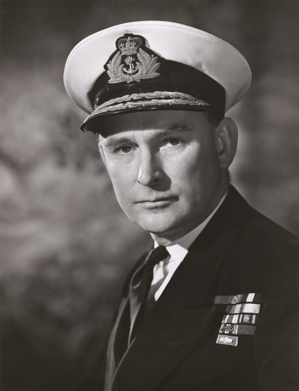 Photograph by Walter Bird, in the collection of the National Portrait Gallery, London